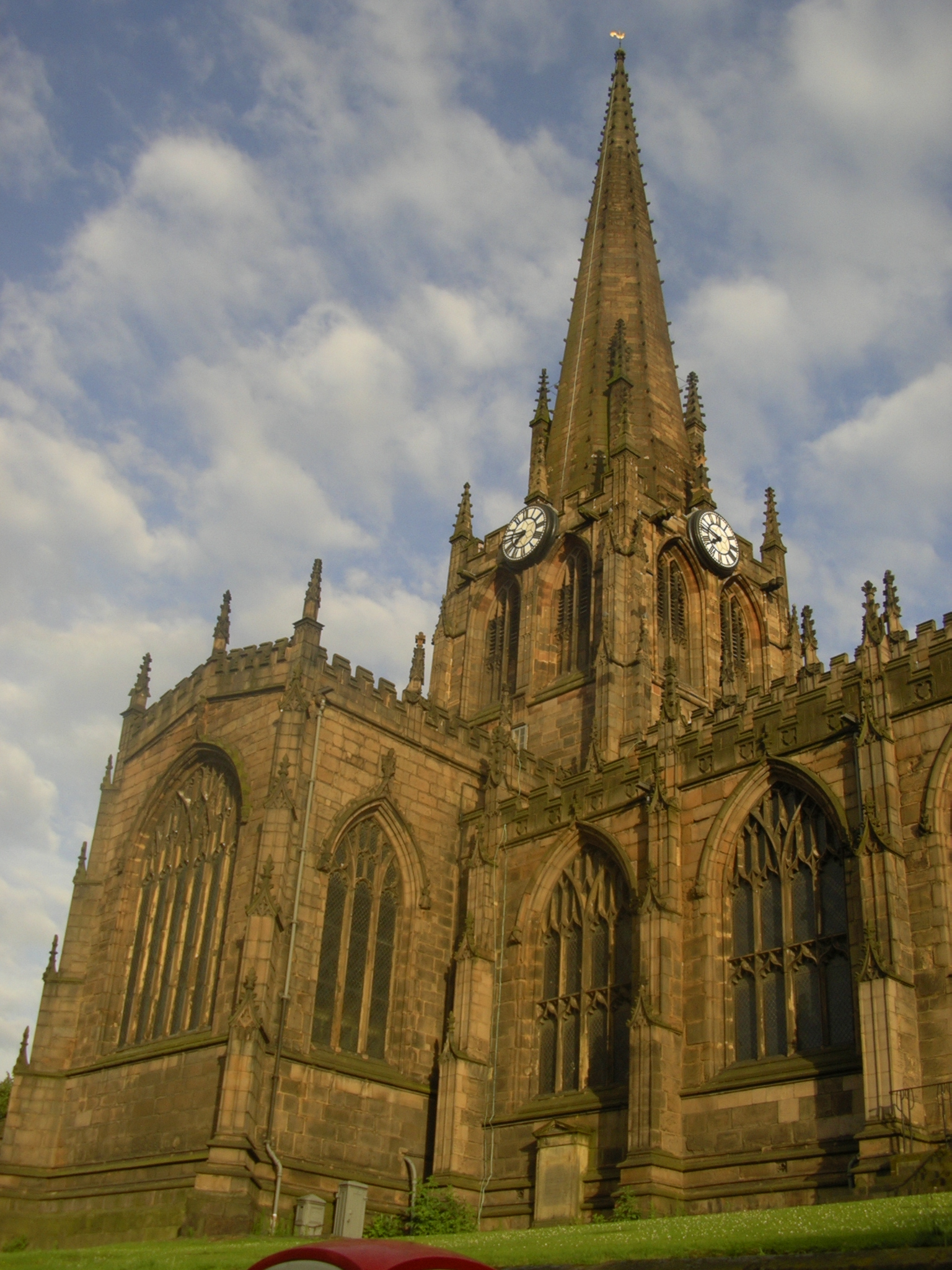 Rotherham Minster Church, from the north west.